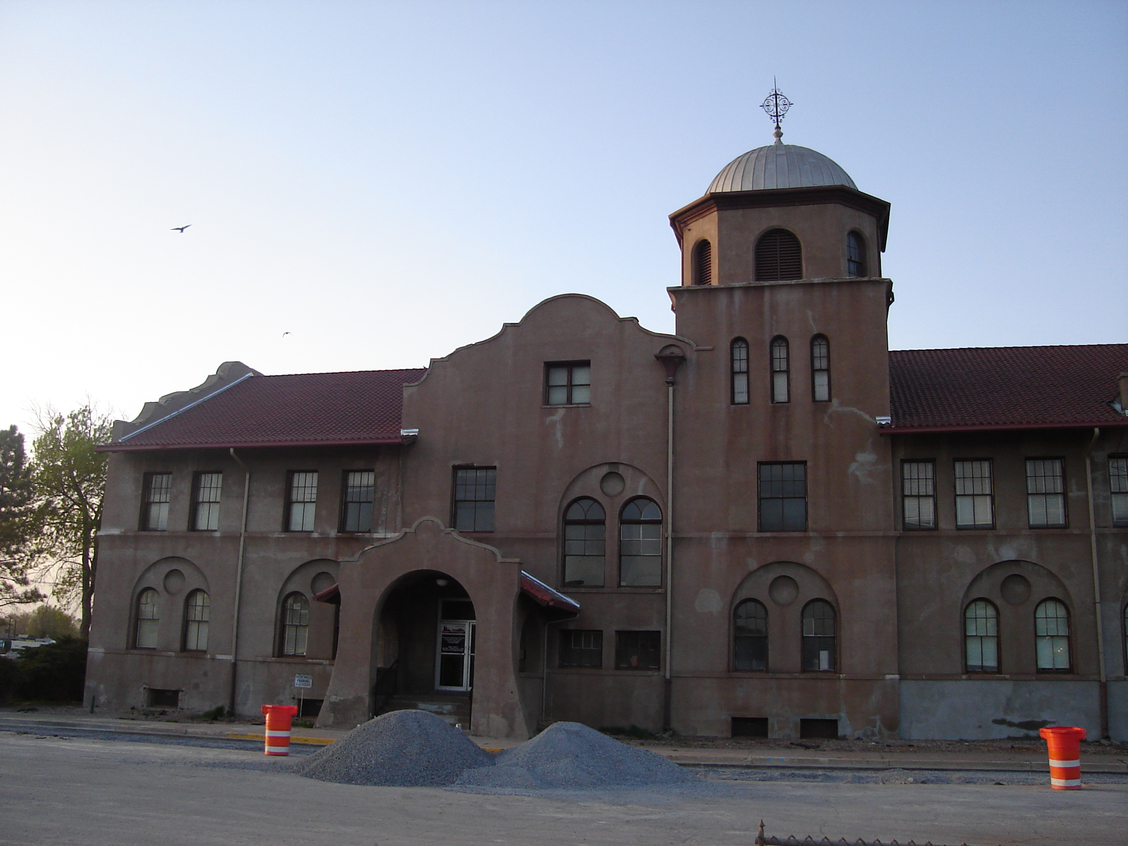 The Main Office building of the CF&I Steel Mill in Pueblo, Colorado. Built in 1901 by the Colorado Fuel and Iron Company, this building served as the office complex for the CF&I Steel mill operations until the mid 1990s. The building was purchased by the Bessemer Historical Society in 2002 and will be renovated and used as the second phase of the Steelworks Museum of Industry and Culture. The building behind this one, the CF&I Annex Building, currently houses the CF&I Archive collection. Photo was taken 4/17/06 at 6:10PM.